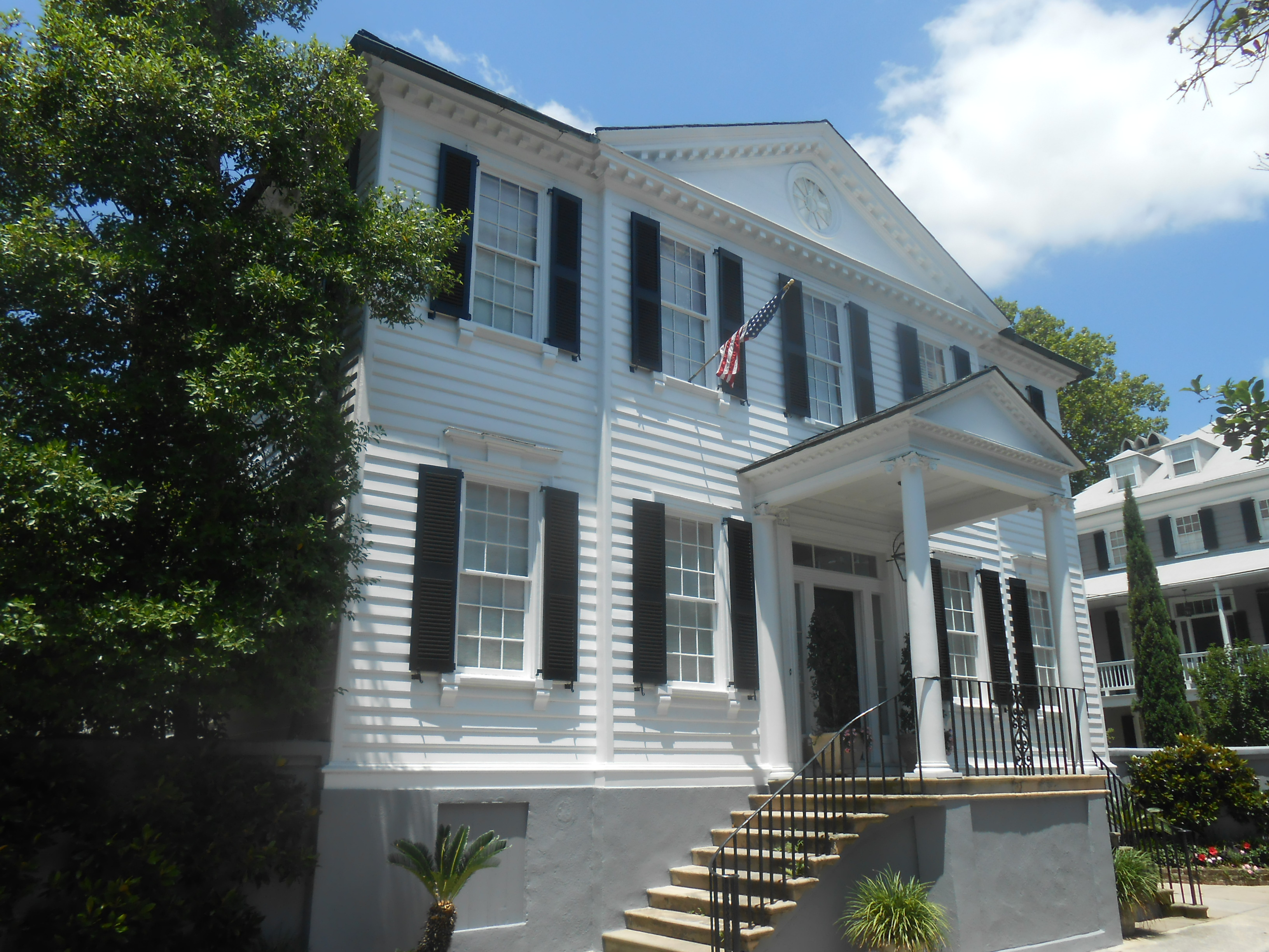 7 Orange Street, Charleston, South Carolina